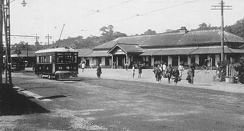 Kumamoto City Tram in 1924; scanned and edited by the uploader